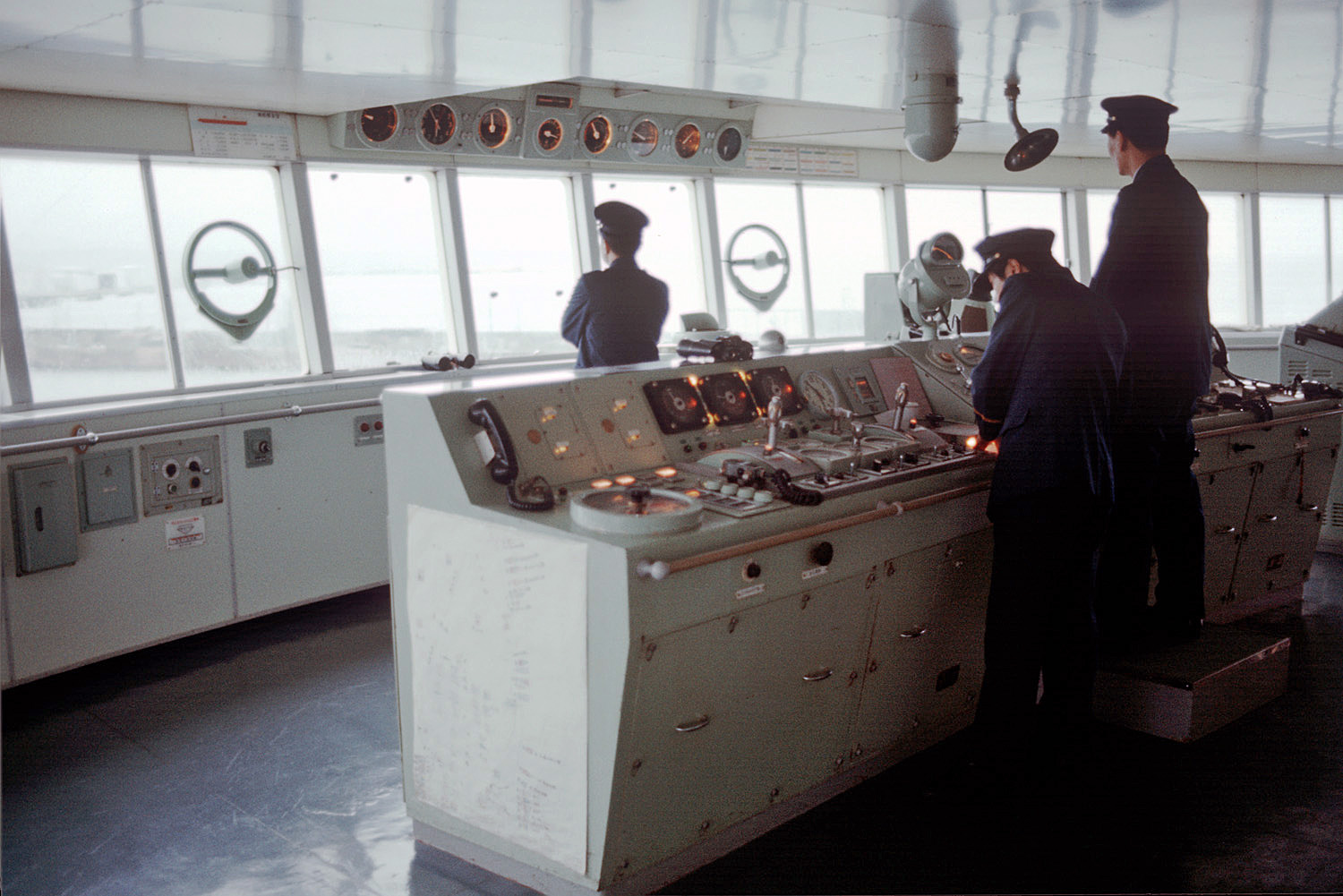 The Wheel house of The Japanese National Railways train ferry between Aomori and Hakodate MS OSHIMA MARU 2 arriving at Aomori No.3 Pier